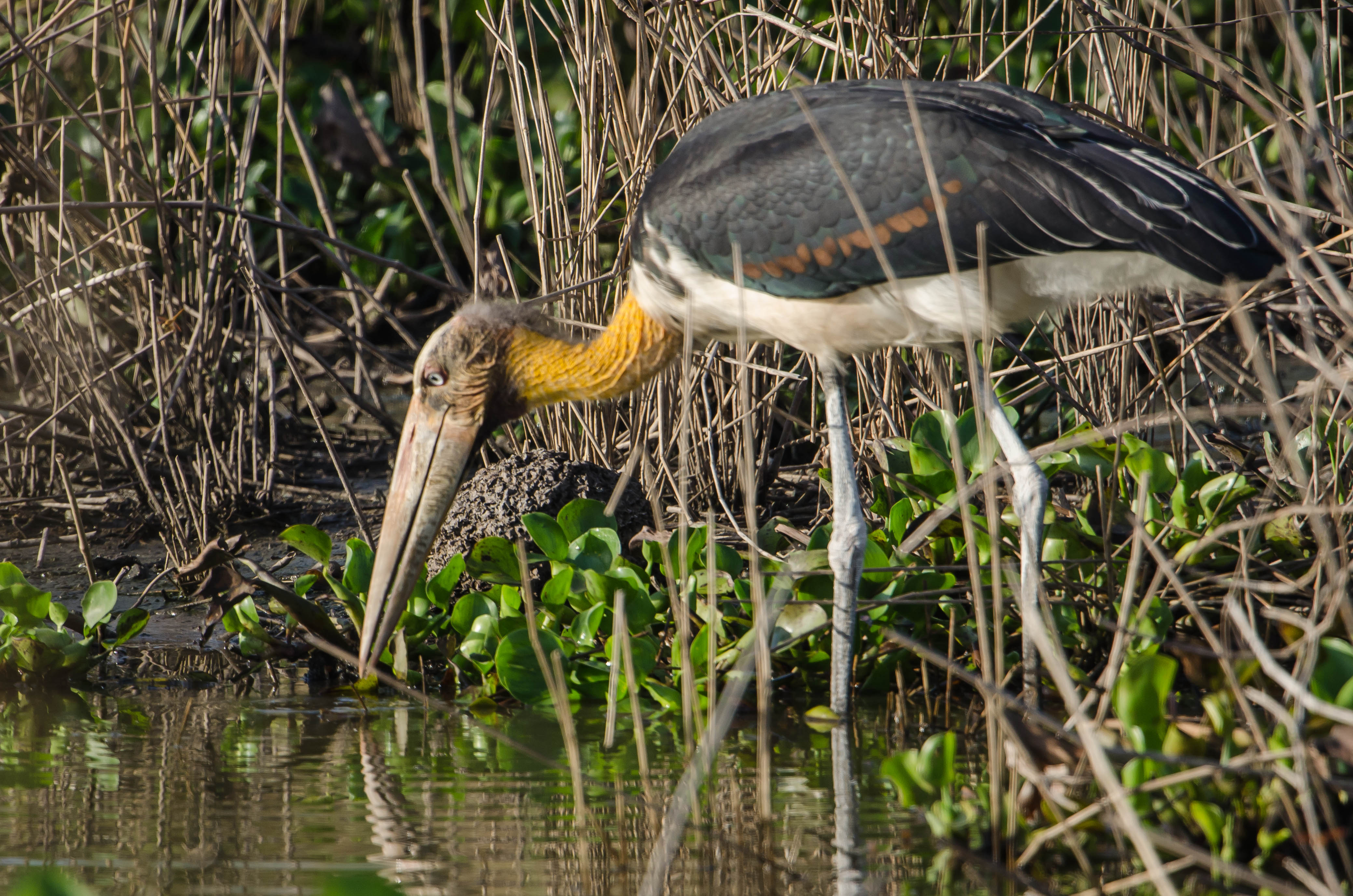 Lesser Adjutant (Leptoptilos javanicus) at Bang Pra, Non-hunting Area, Chonburi, Thailand